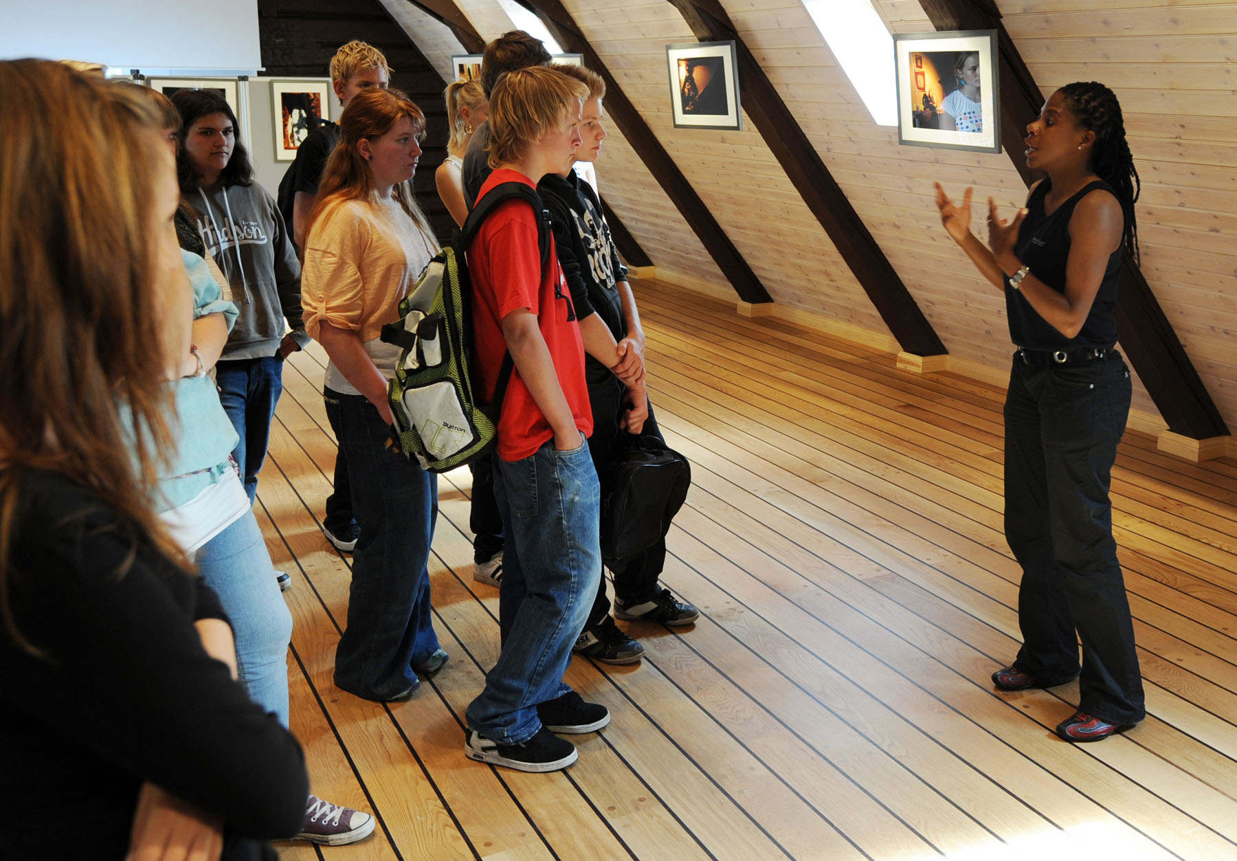 this is Neo Ntsoma giving a workshop to a aspiring youngsters